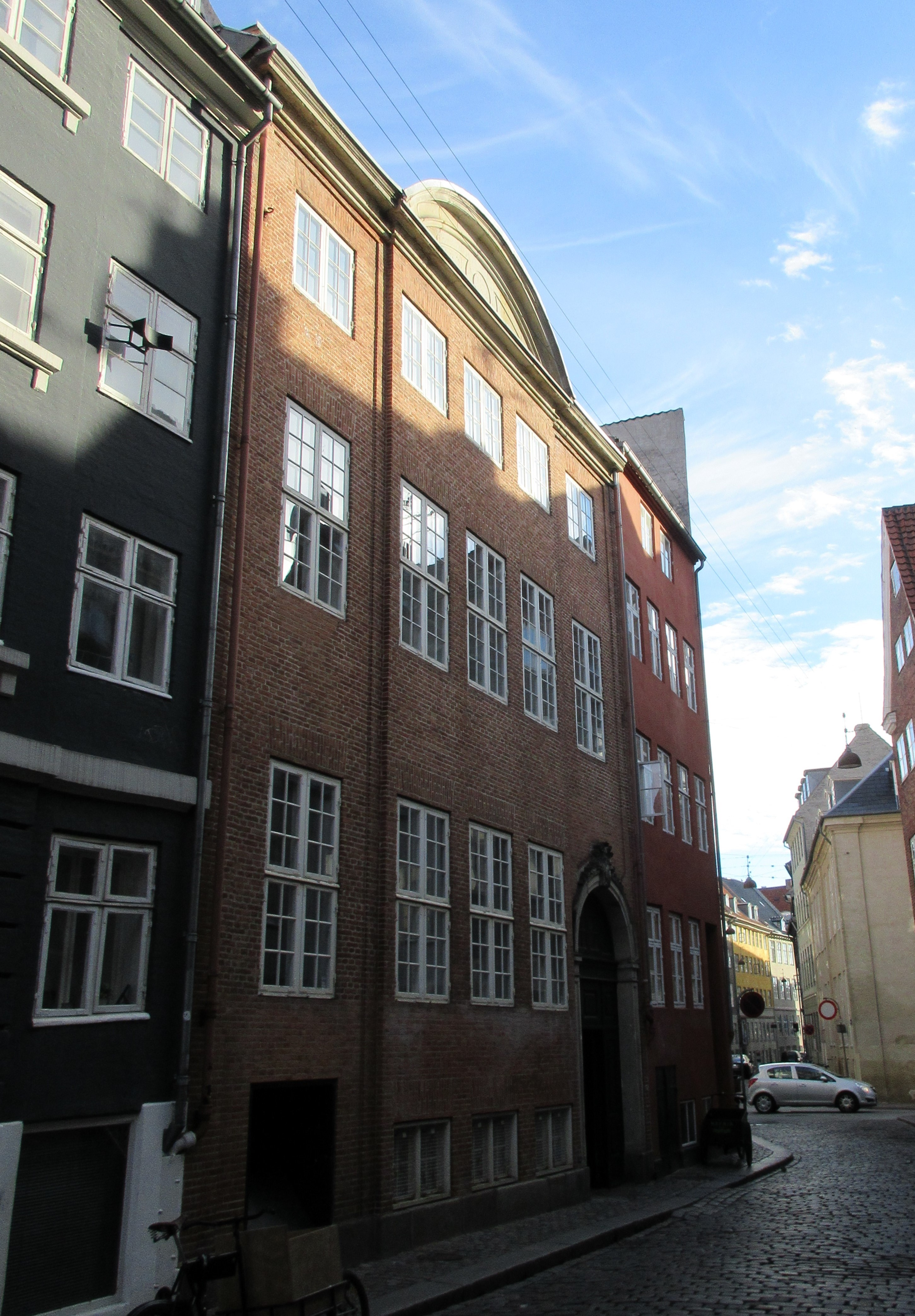 Magstræde 6